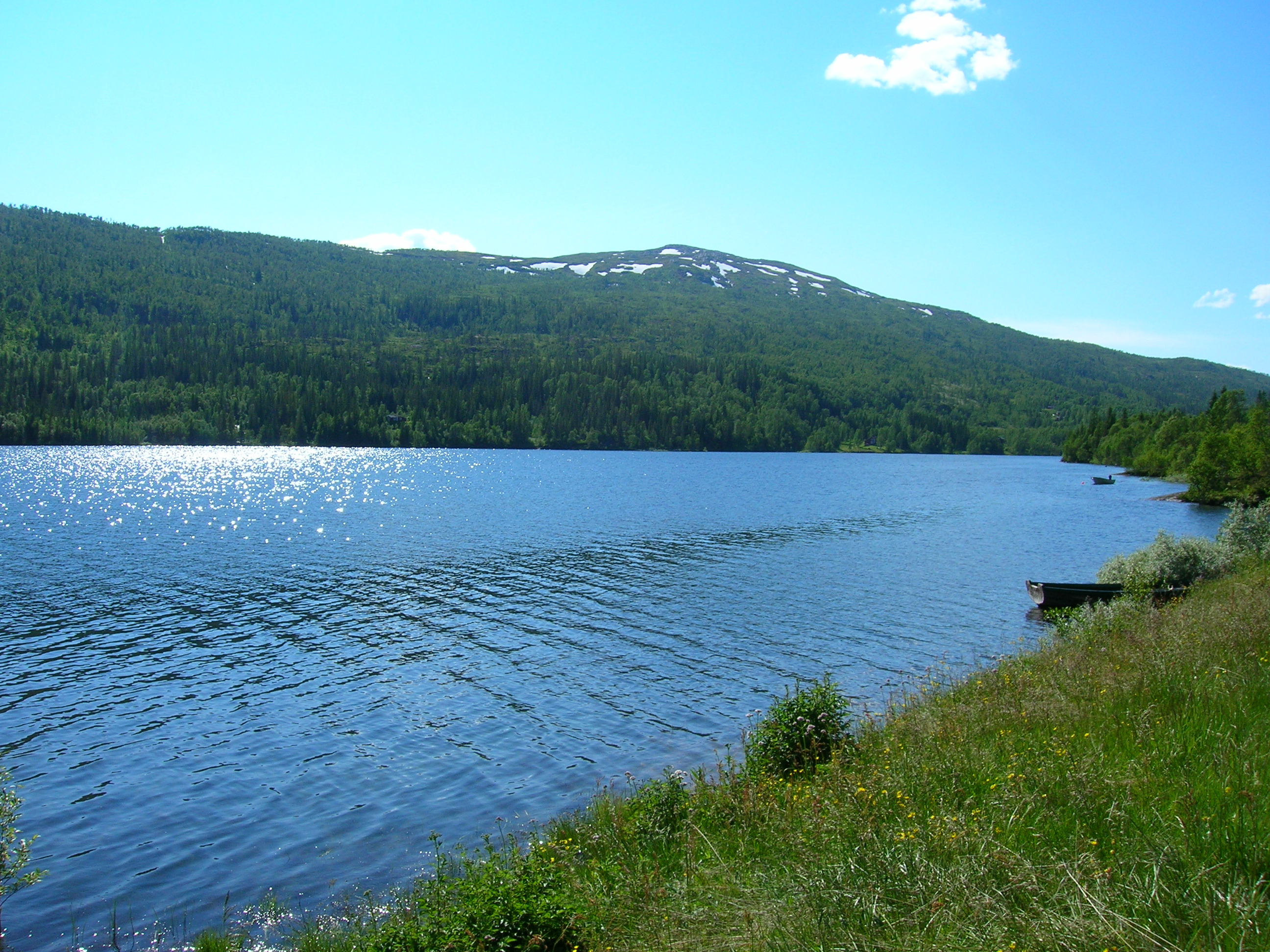 Andfiskvatnet in Mo i Rana, Nordland, Norway. Photo July 4, 2007 with a Nikon Coolpix 5600 5,1 Megapixel camera.